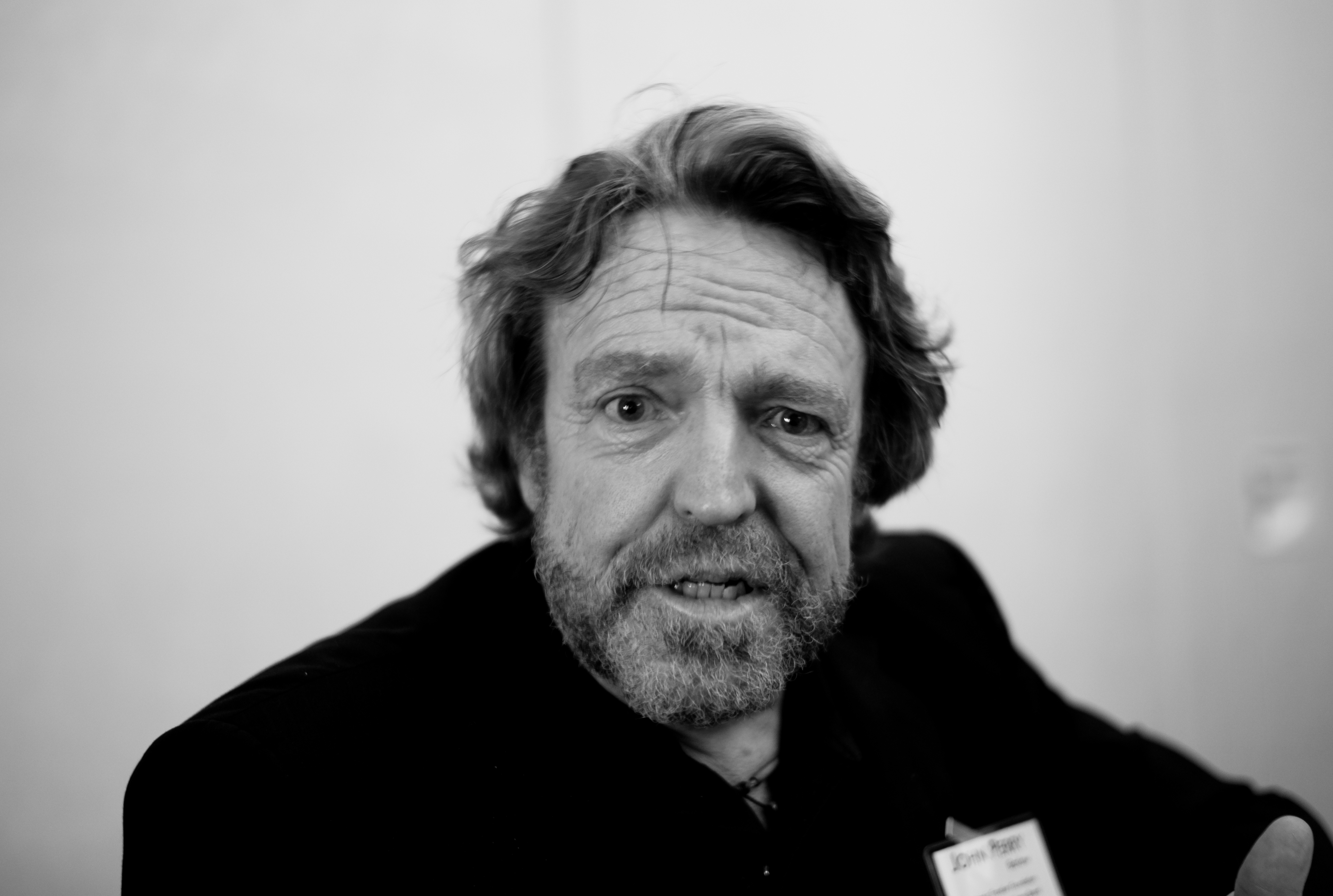 John Perry Barlow